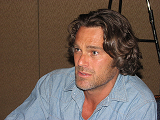 American actor Grayson McCouch at the 2009 As The World Turns Fan Luncheon held in New York City.